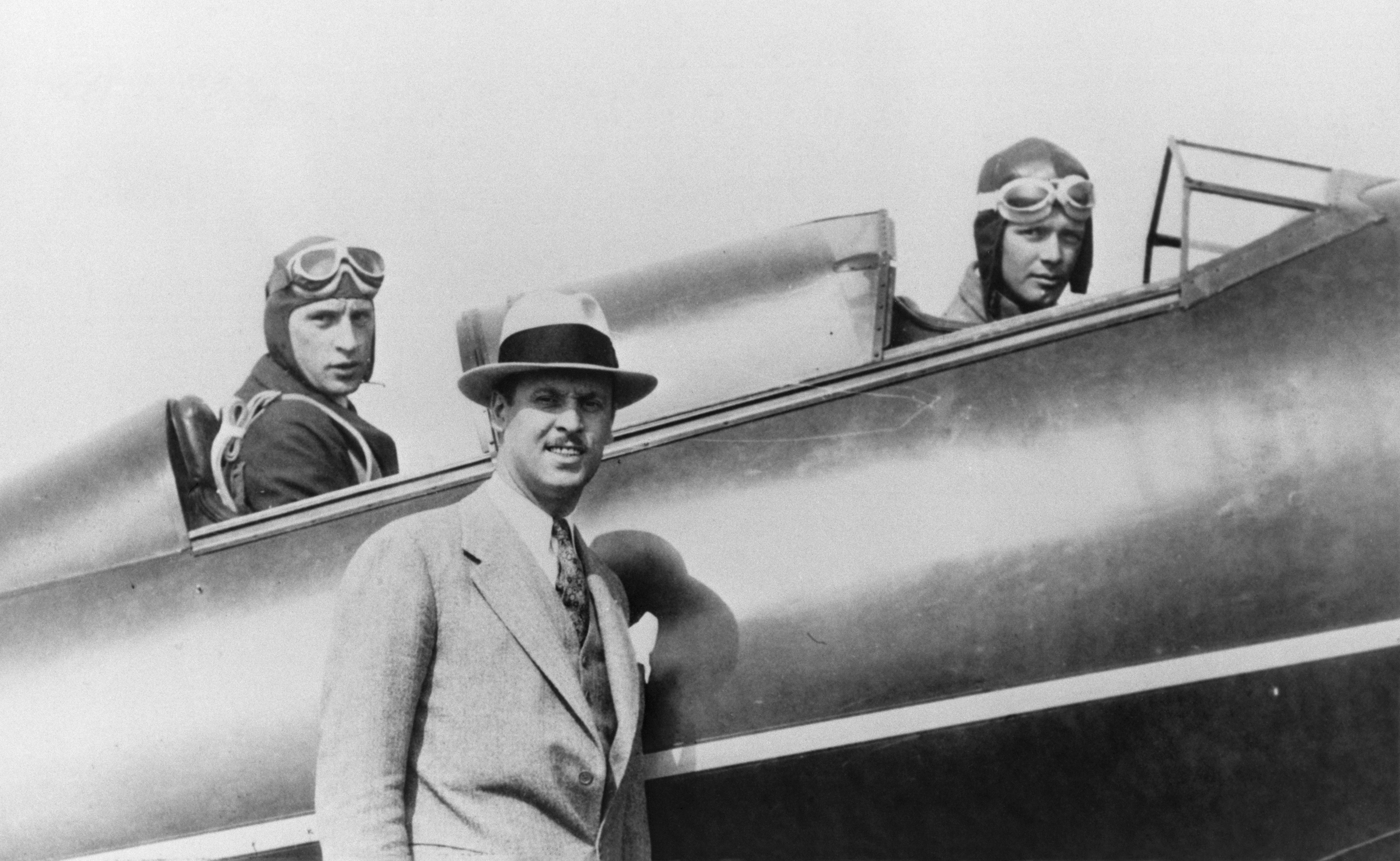 Fred E. Weick head of NACA Propeller Research Tunnel section, 1925-1929, in rear cockpit of Lockheed Sirius (NR211). Charles Lindbergh in front. Tom Hamilton is standing.